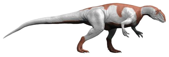 Flipped version of File:Yangchuanosaurus NT small.jpg (Original description: Life reconstruction of Yangchuanosaurus shangyouensis)